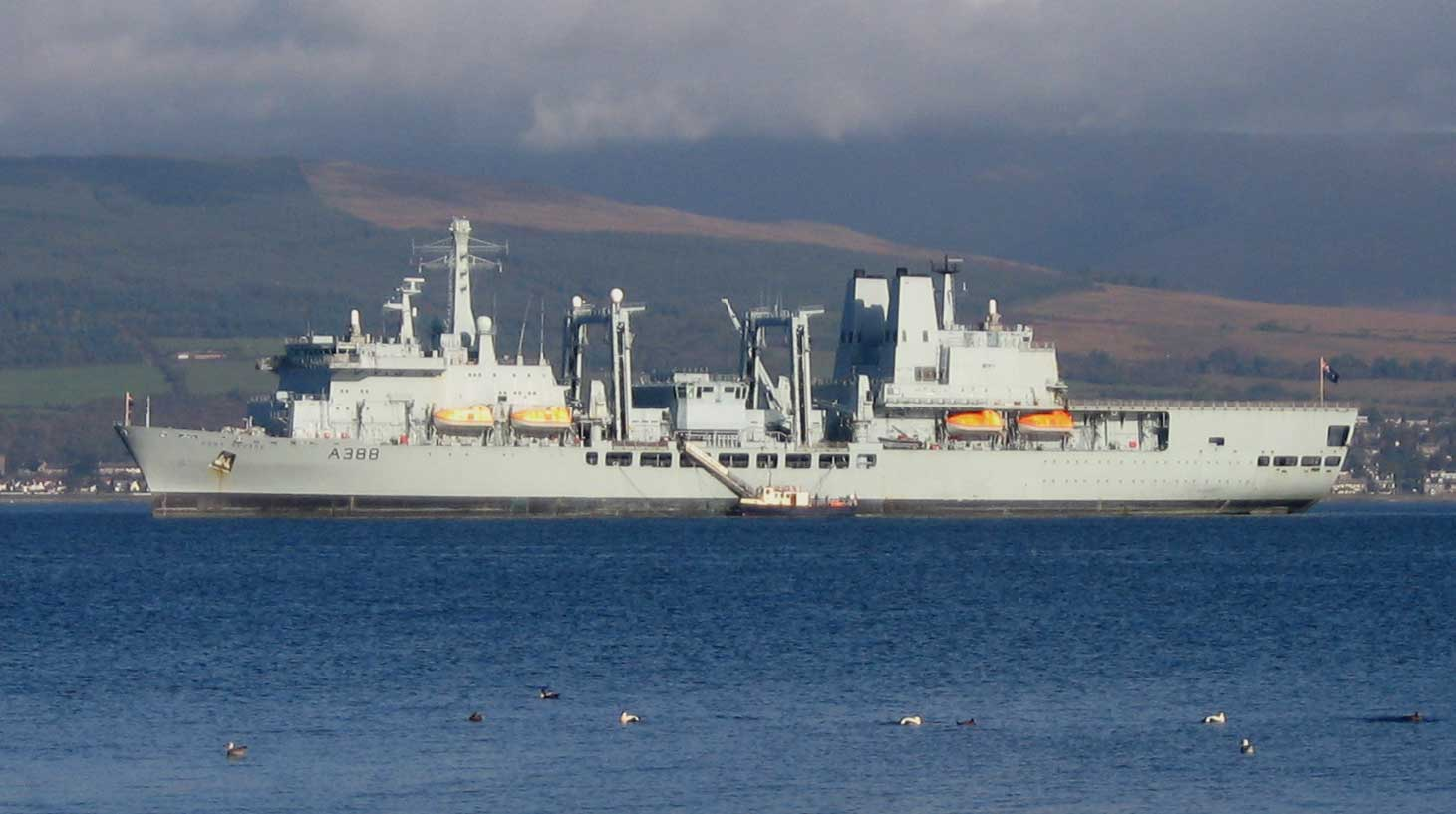 RFA Fort George (A388) waiting at the Tail of the Bank on the Firth of Clyde in Scotland for "Neptune Warrior" "NW 063" multinational training exercise involving NATo and other forces off the west coast of Scotland from 23 October to 2 November 2006.